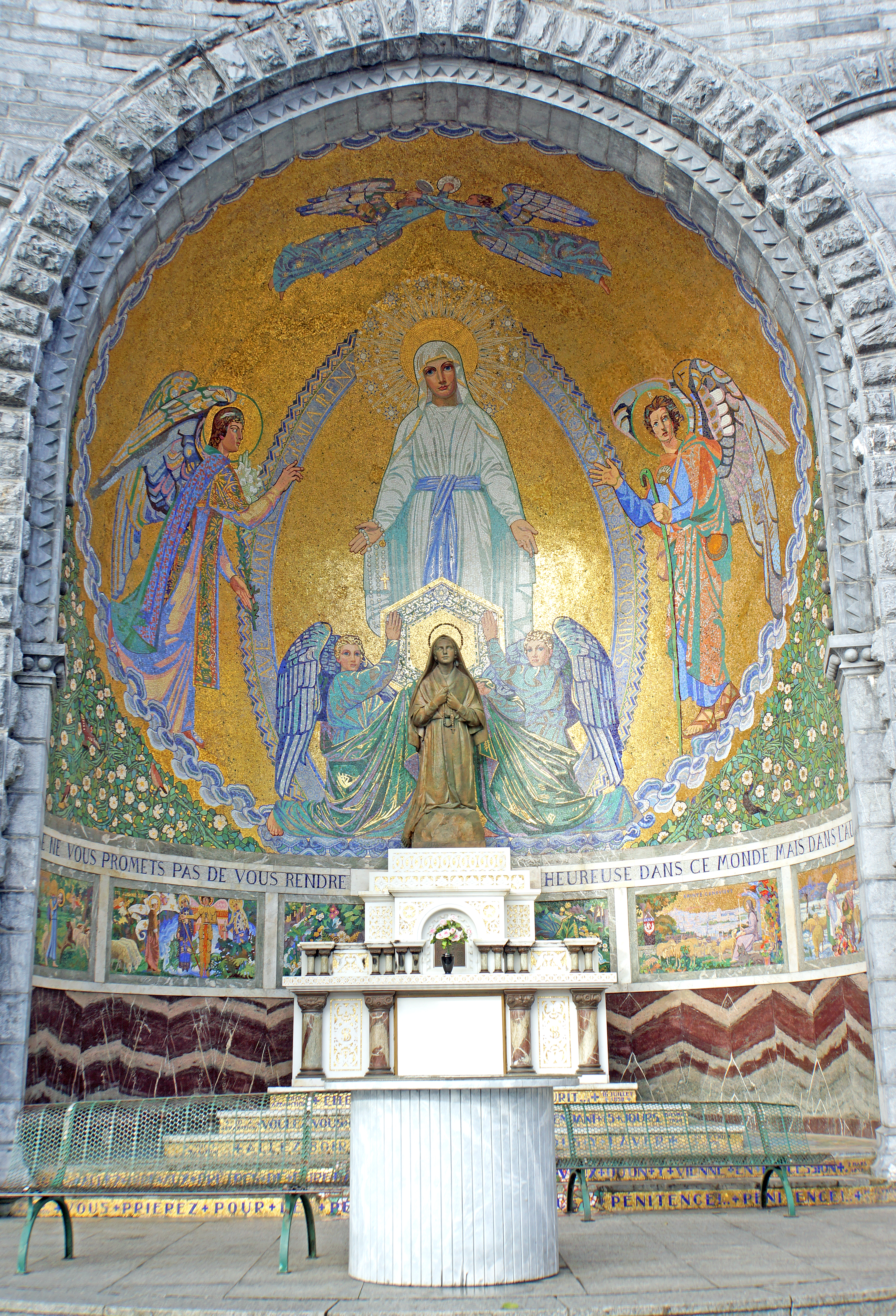 PLEASE, NO invitations or self promotions, THEY WILL BE DELETED. My photos are FREE to use, just give me credit and it would be nice if you let me know, thanks. Our Lady of Lourdes hovers over a statue of St Bernadette Outside Chapel on the left side of the Rosary Basilica.